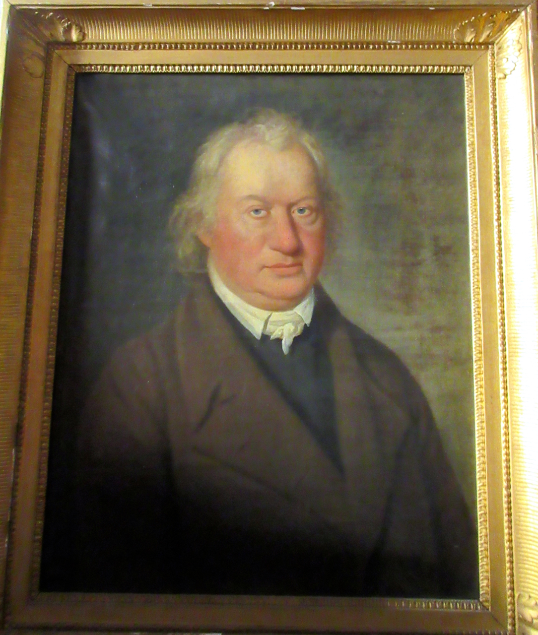 Portrait Nicolaus Lennig Mainz Rhineland-Palatinate painted by Kaspar Schneider summer 1815